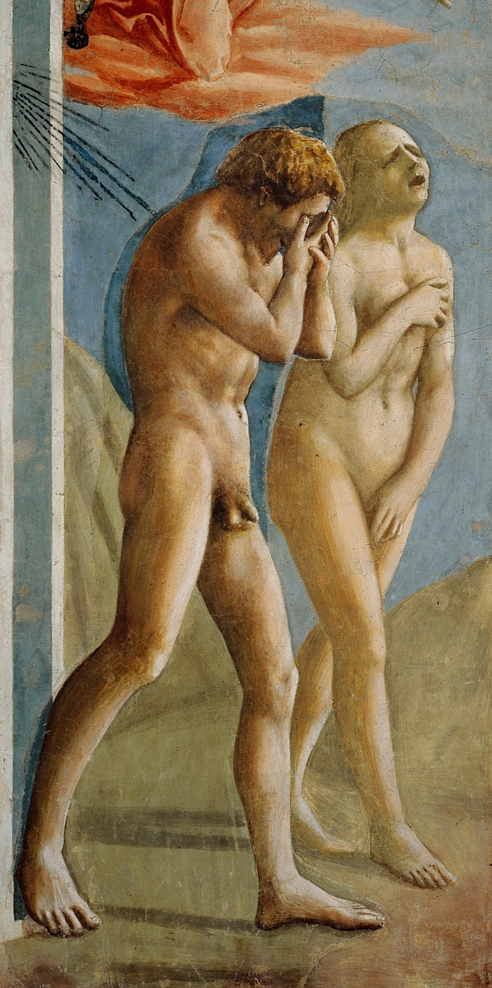 Expulsion of Adam and Eve from Masaccio.